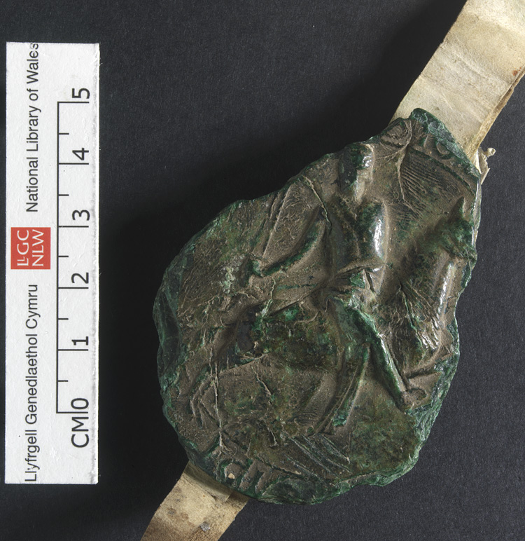 Dyddiad / Date : 1209 Disgrifiad/Description : Seal of llywelyn ap Iorwerth (d. 1240). Armoured man in surcoat holding a sword in his right hand and a shield on his left arm mounted on horse galloping to the right Rhif ffeil delwedd / Image file no. : sea01126 Rhagor o wybodaeth am brosiect Seliau yng Nghymru'r Oesoedd Canol More information about the Seals in Medieval Wales project